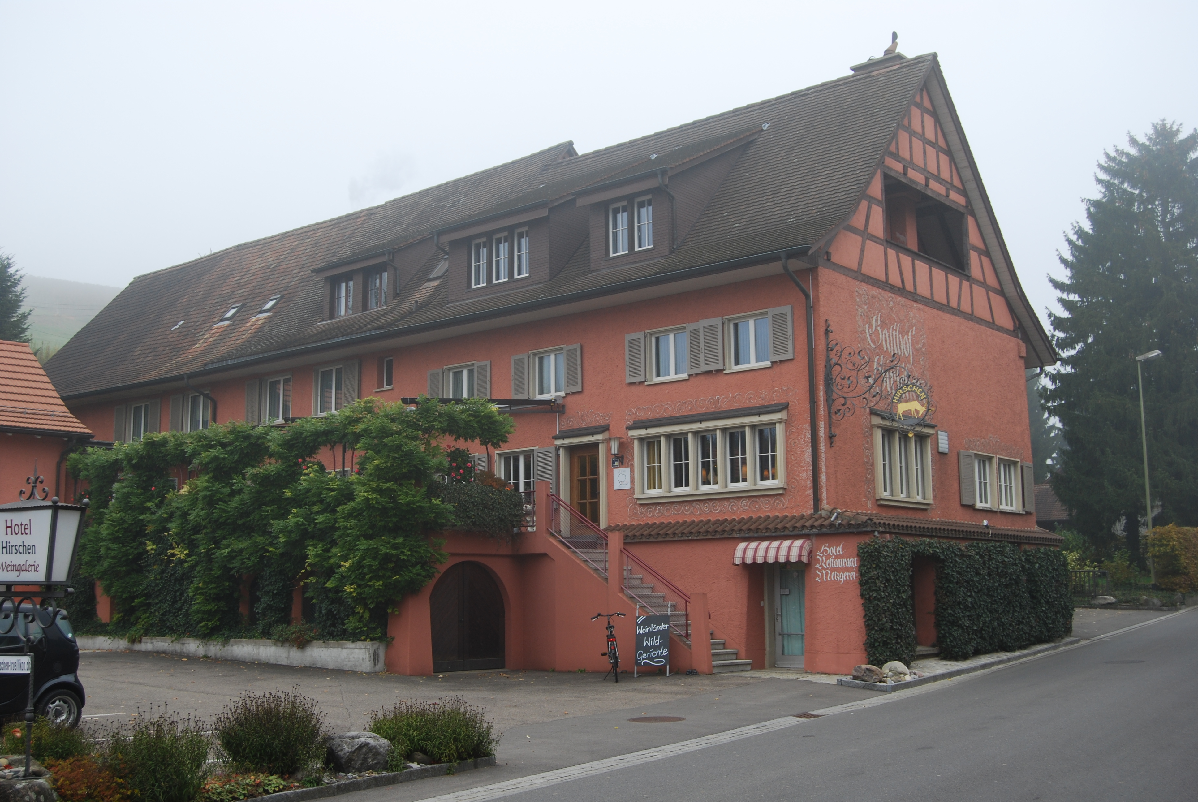 Hotel Hirschen at Trüllikon, canton of Zürich, SwitzerlandEsperanto: Hotelo Hirschen en Trüllikon, Kantono Zuriko, Svislando